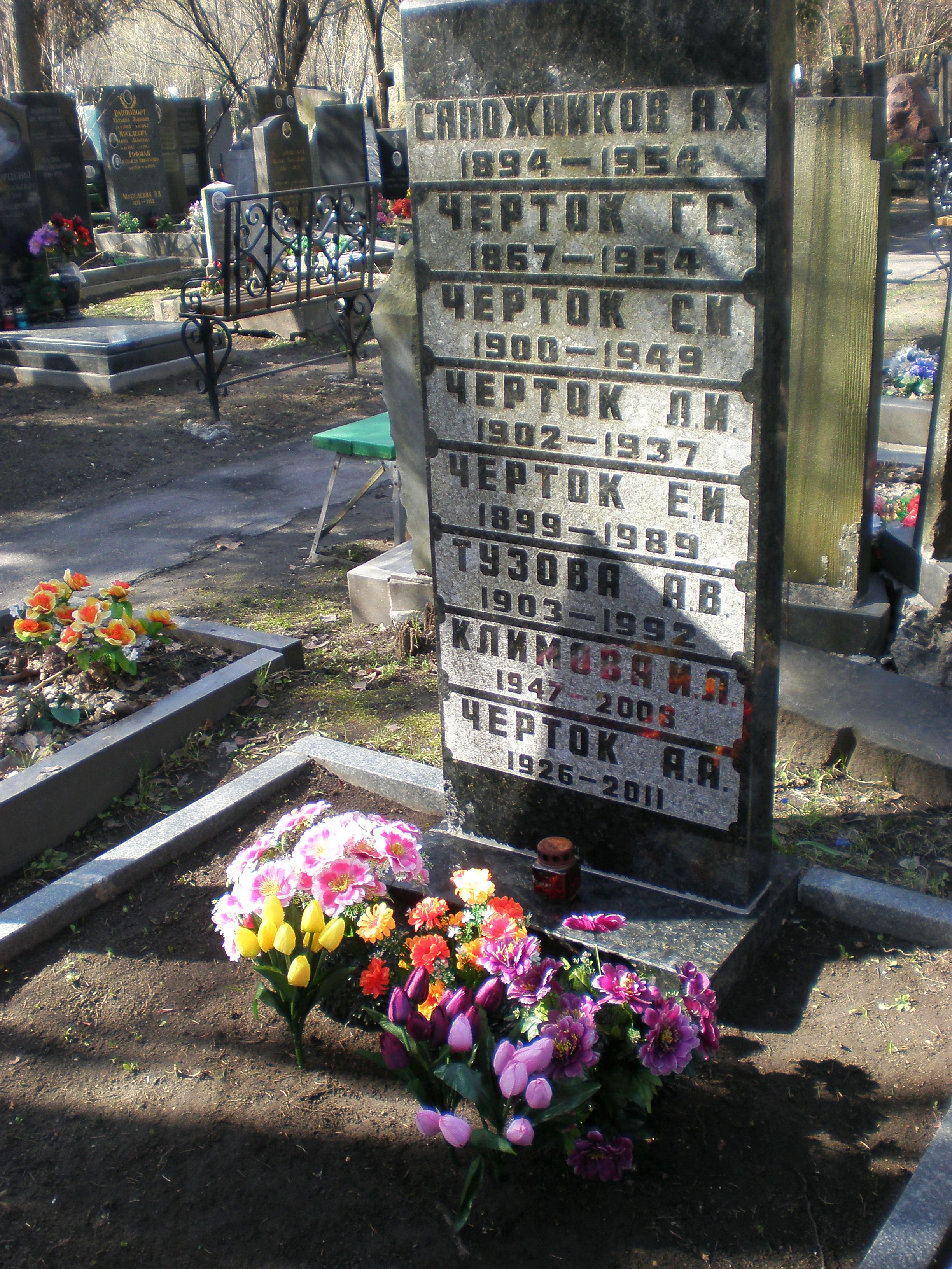 пейзаж